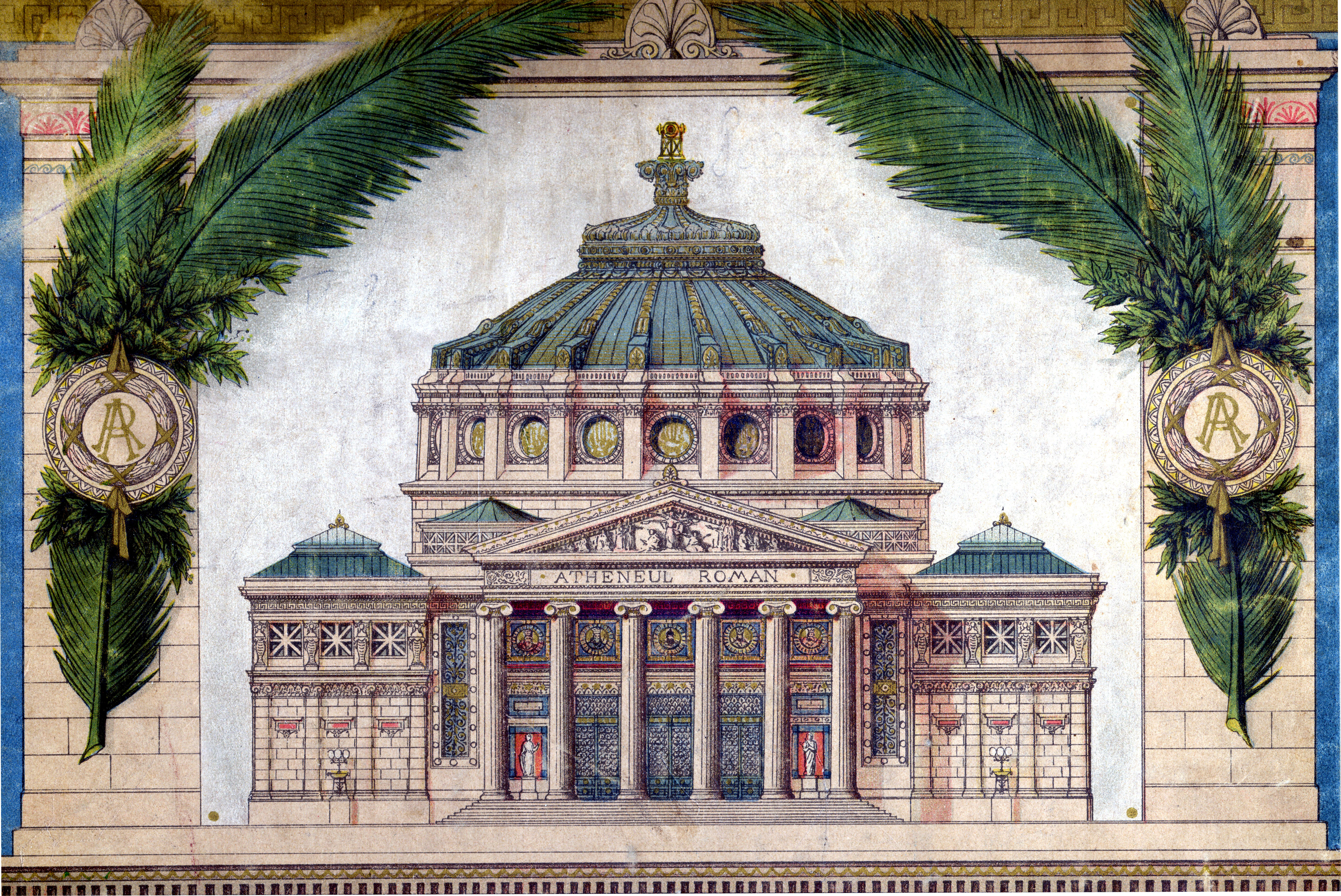 design of the Atheneului Român (Romanian Atheneum), a neoclassical building completed in 1888 in Bucharest